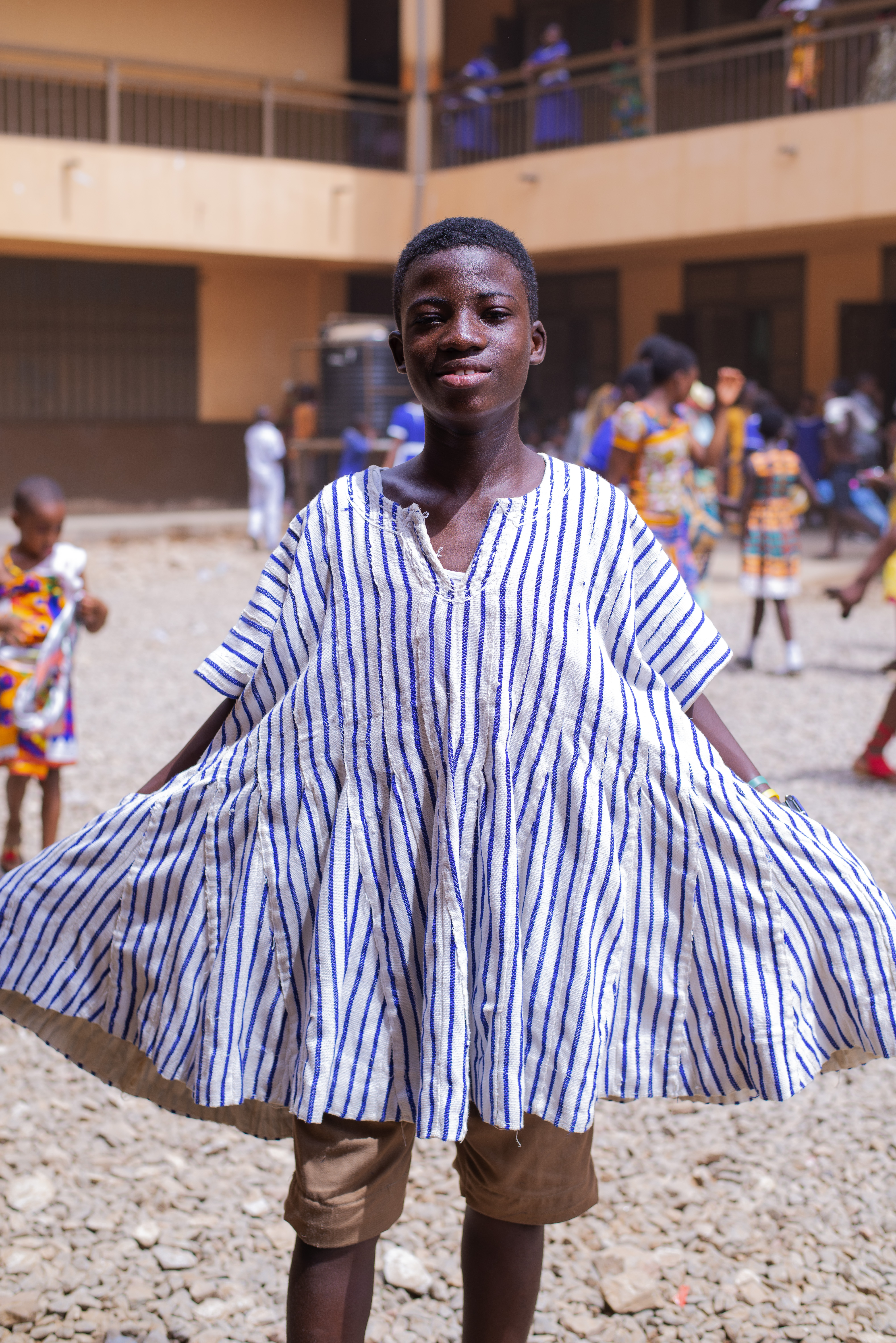 Smock is a type of dress the Northerness of Ghana wear, it is made from yarns, woven my hand with the help of local loom. Kete is use in sewing the smock. This photo has been taken in the country: Ghana